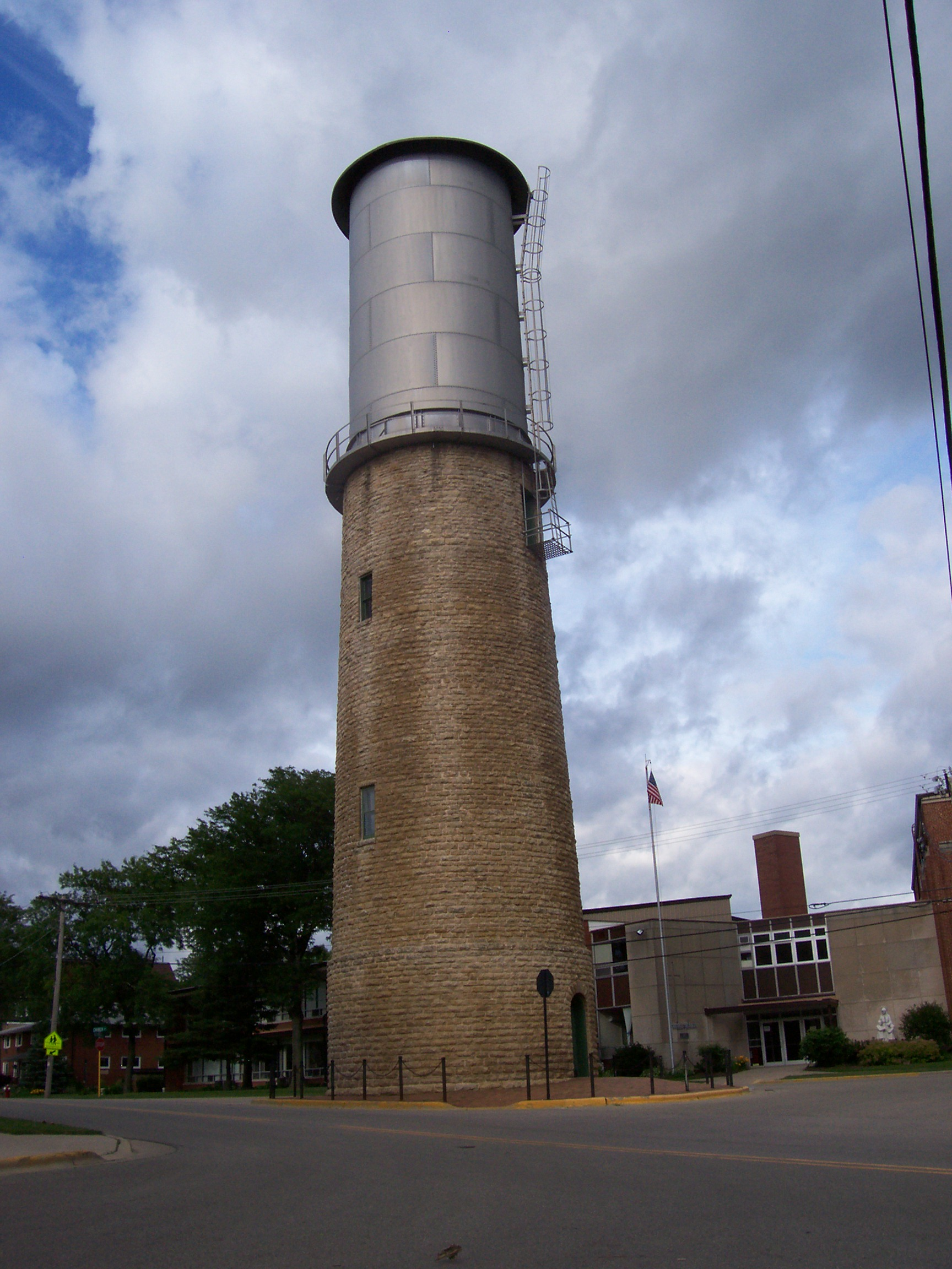 The historic water tower in Sun Prairie, Wisconsin, a registered historic place.